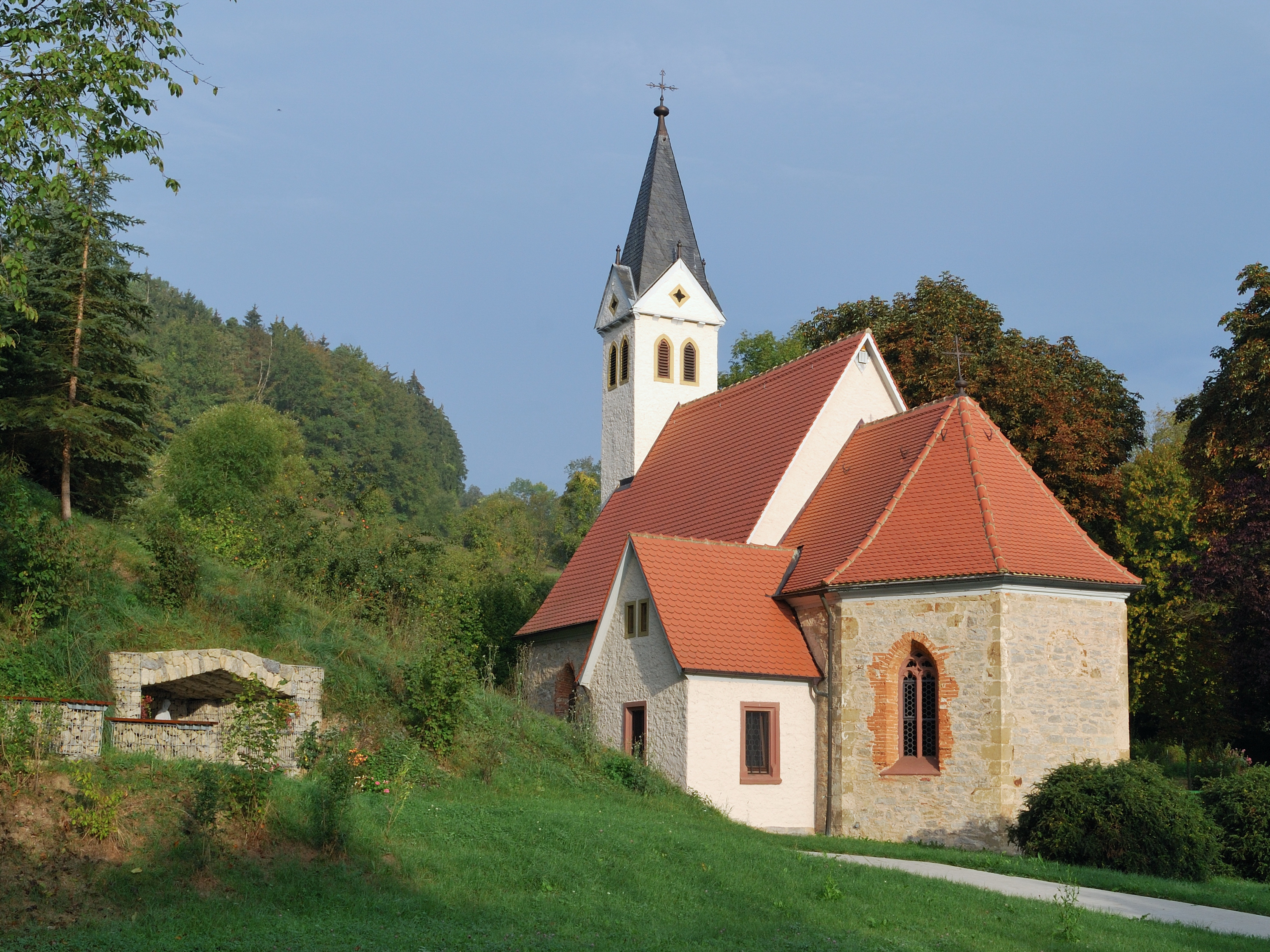 St. Anne chapel in Mulfingen in the district of Hohenlohe in Germany.